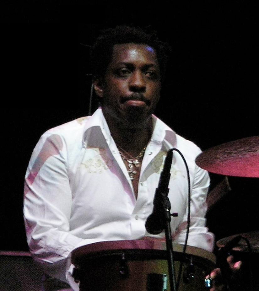 Steve Jordan playing in the John Mayer Trio, 2006